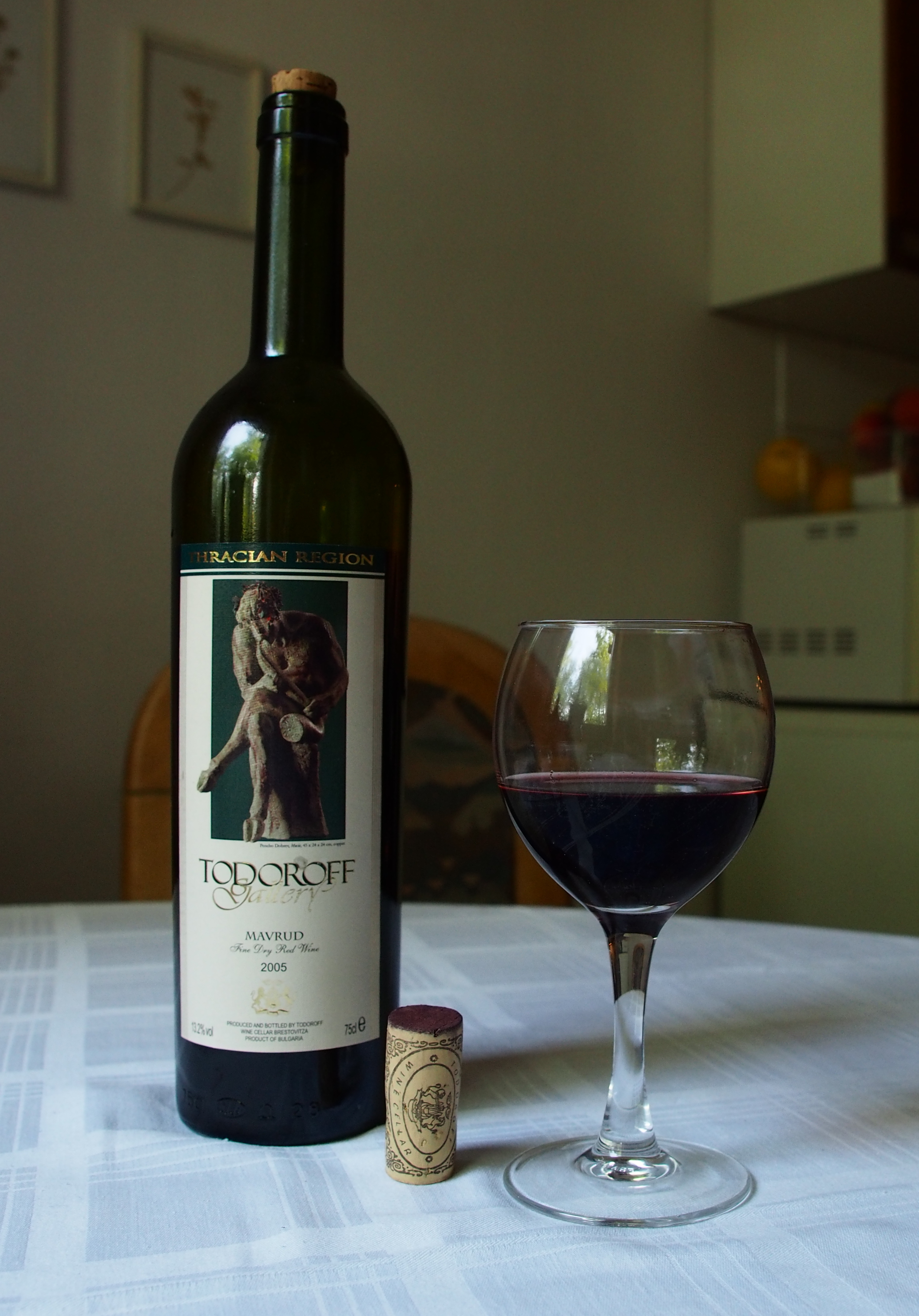 Mavrud dry red wine of Bolgaria. Brestovitza wine cellar. Српски (ћирилица): Мавруд, бугарско суво црвено вино са подручја Брестовице.